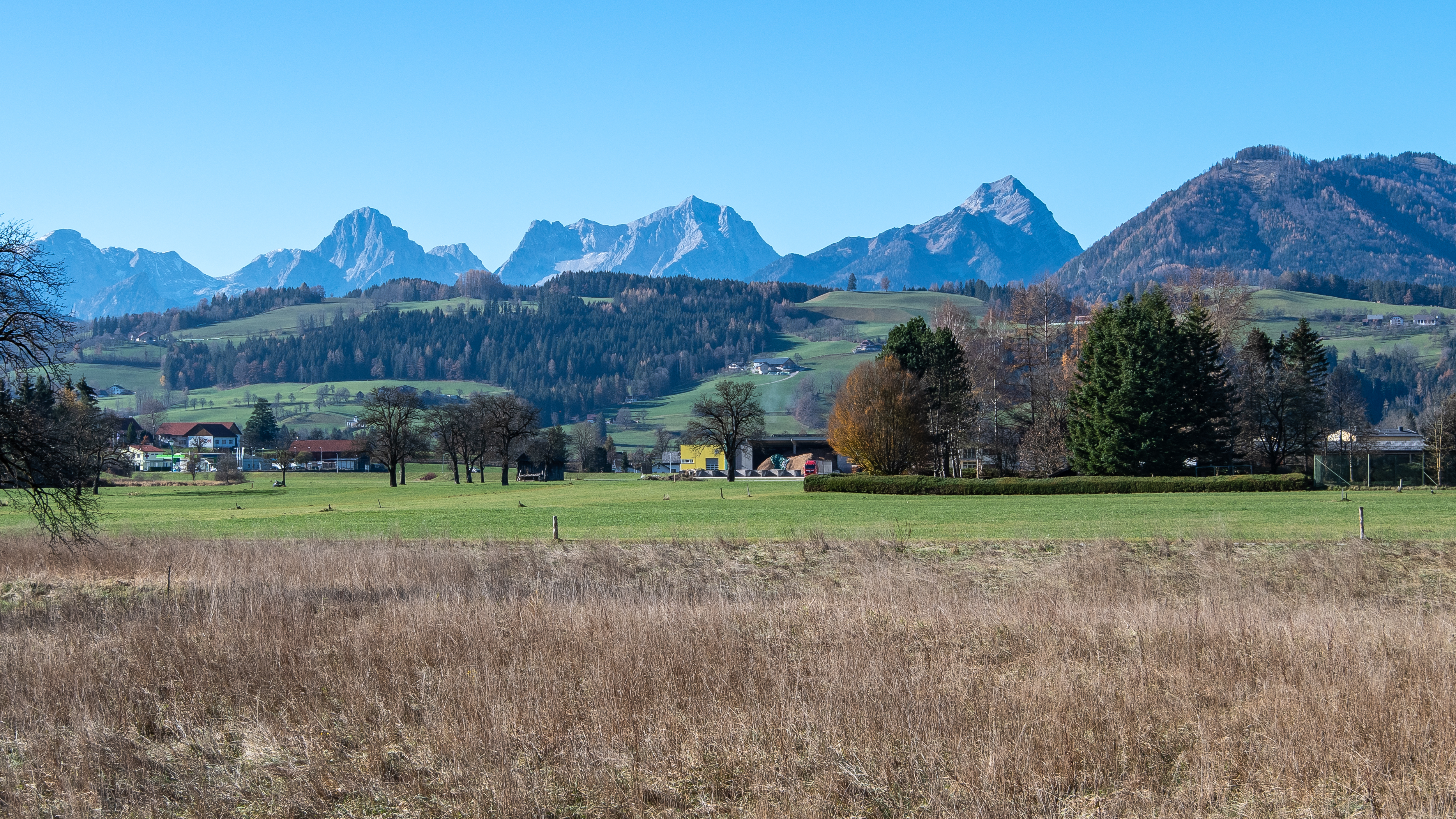 The Priel group of Totes Gebirge is dominating the scenery of Windischgarsten, Upper Austria.